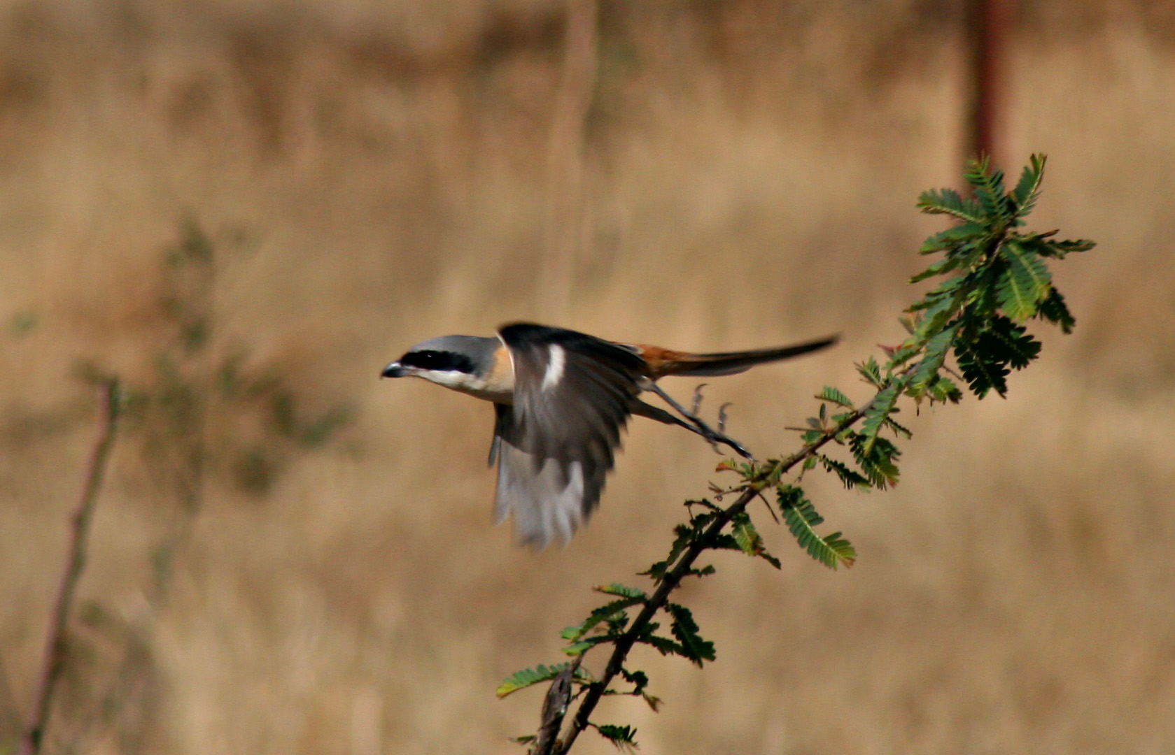 Long-tailed shrike, with grey head. This race is found in Western Ghats in central India. Picture taken at Bhimashankar, near Pune, India.